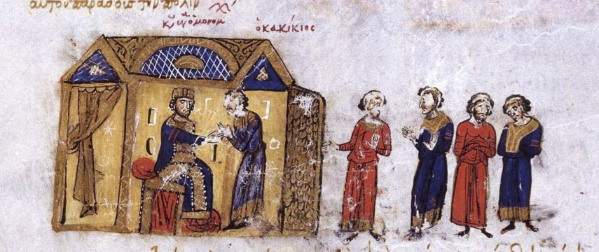 The Armenian ruler Kakikios surrenders to Emperor Constantine IX Monomachos